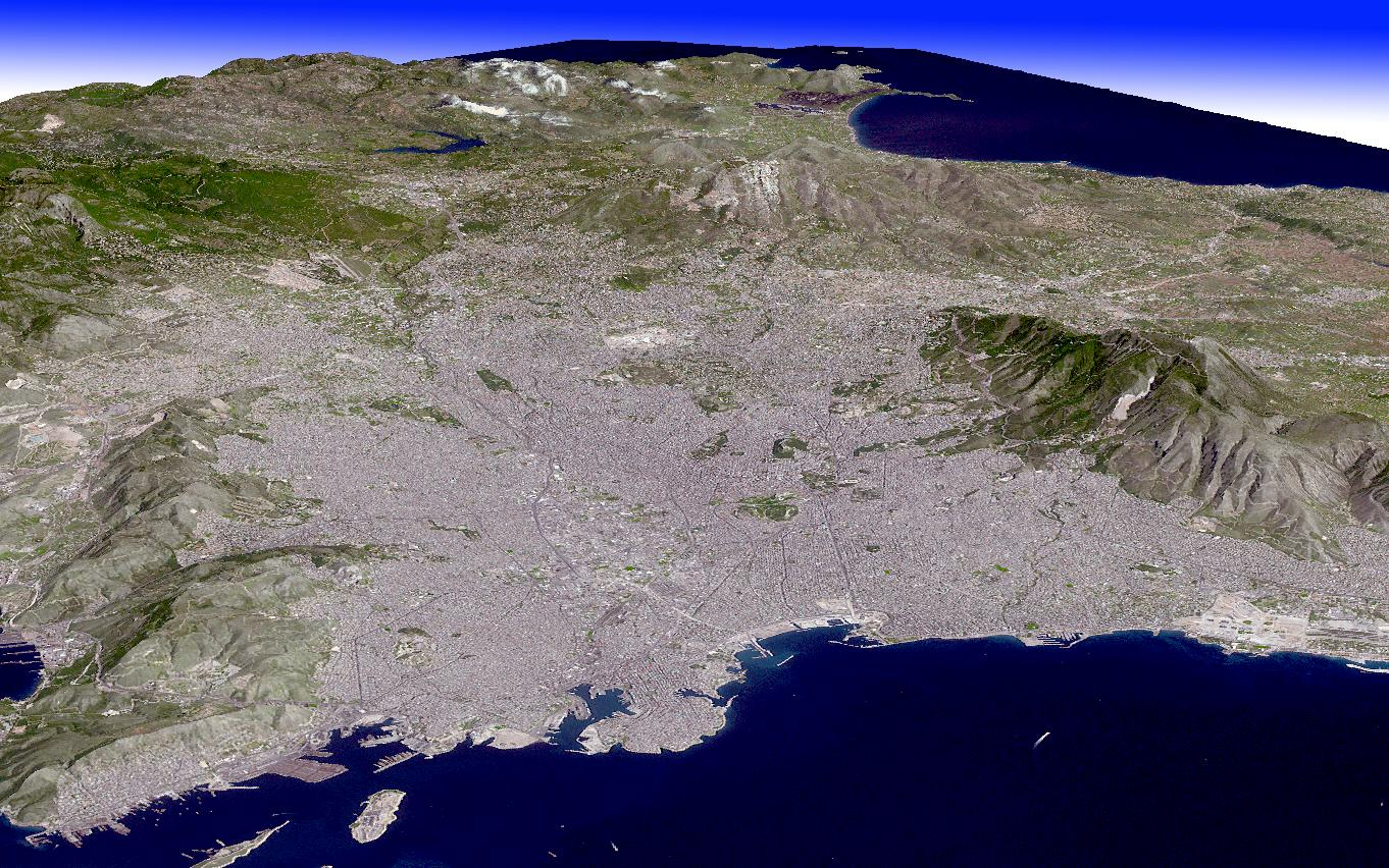 The 2004 Athens Olympics head into their second week this evening, August 20, 2004. For the next nine days, the emphasis shifts from sports like swimming and gymnastics to track & field and the elimination rounds of team sports. Athens, in southeastern Greece, is the capital and largest city in the country. Situated on the Attic plain, it is surrounded by mountains on three sides, and is served by the port of Piraeus 8 km to the southwest. The Acropolis of Athens has been inhabited since Neolithic times. In the 9th century BC, it was incorporated into the city-state of Athens. Athens reached its golden age in the 5th century BC under Pericles, with a population of perhaps 200,000. In 1997 the International Olympic Committee chose Athens, the site of the first Olympic Games in 1896, as the host of the 2004 Summer Olympics. The country of Greece has invested billions of dollars to improve the city’s infrastructure and construct Olympic venues. This perspective view was made from an image acquired April 29, 2004, draped over a digital elevation model (DEM) created from the same Advanced Spaceborne Thermal Emission and Reflection Radiometer (ASTER) scene. Links: Athens, Greece from the International Space Station The Acropolis, Athens, Greece Athens Olympics Sports Complex from Ikonos